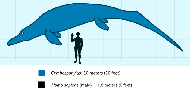 A comparison of the body sizes between an Cymbospondylus and an adult male human.